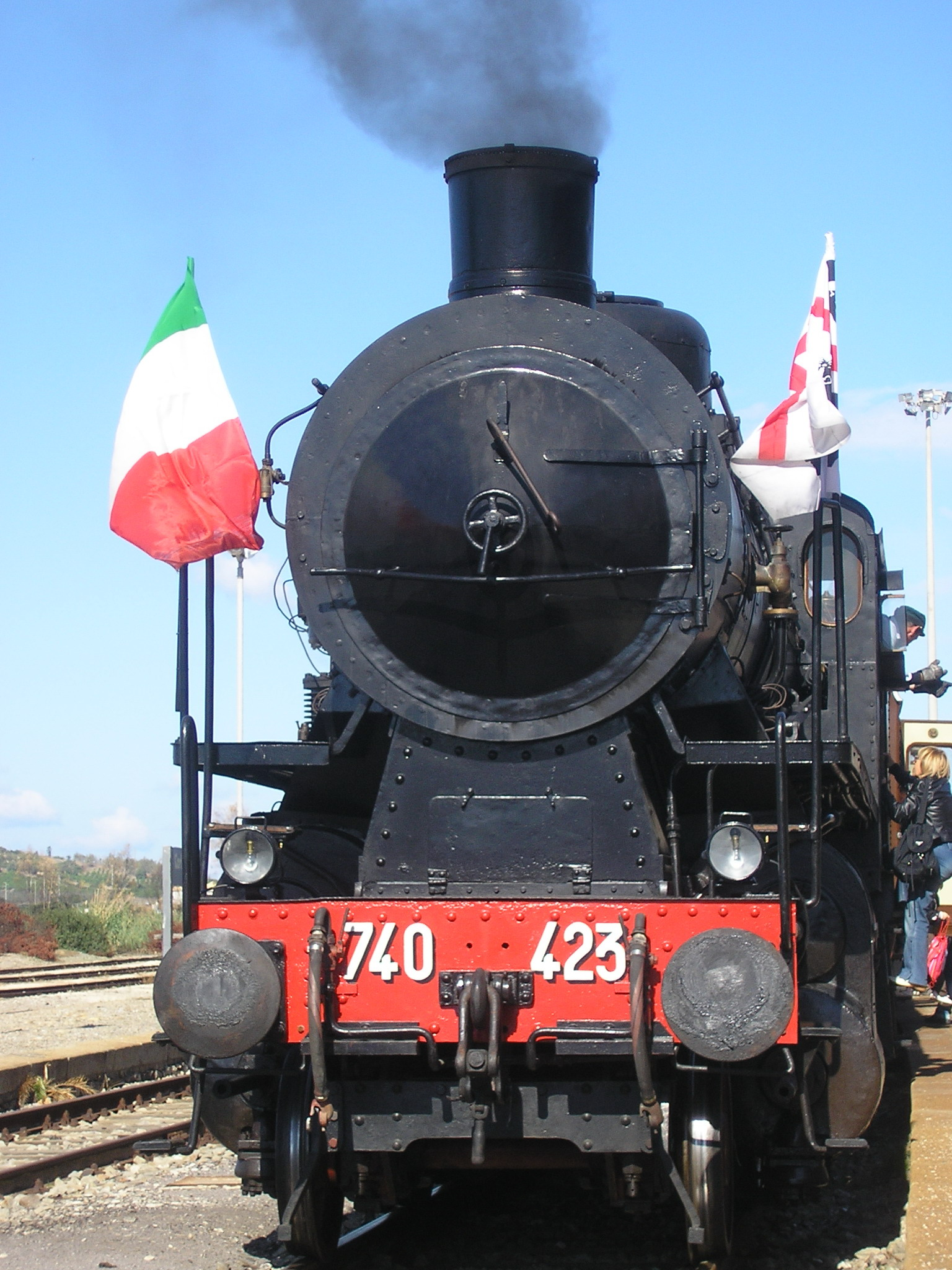 Steam locomotive of FS group 740 number 423 in Carbonia, Sardinia, Italy